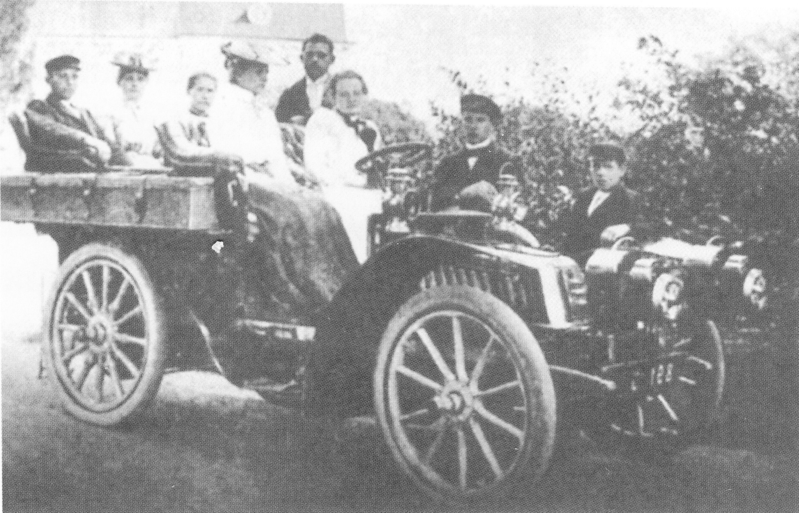 Old Mors car